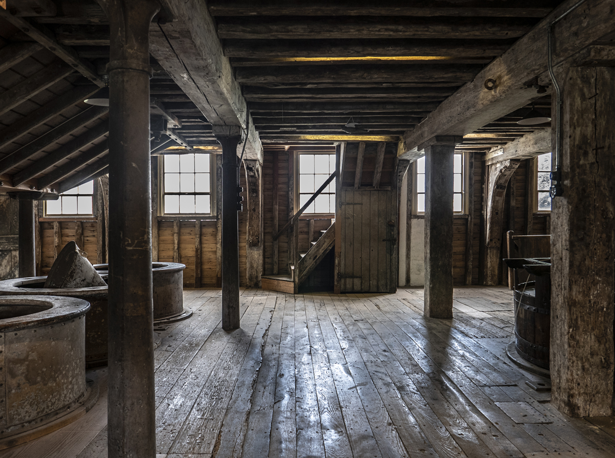 The House Mill is a grade 1 listed 18th century tidal mill in Bromley by Bow London E3 3DU. Originally built 1776 on a man-made island in the River Thames on an existing pre-Domesday site. Maybe the largest surviving tidal mill in the world.